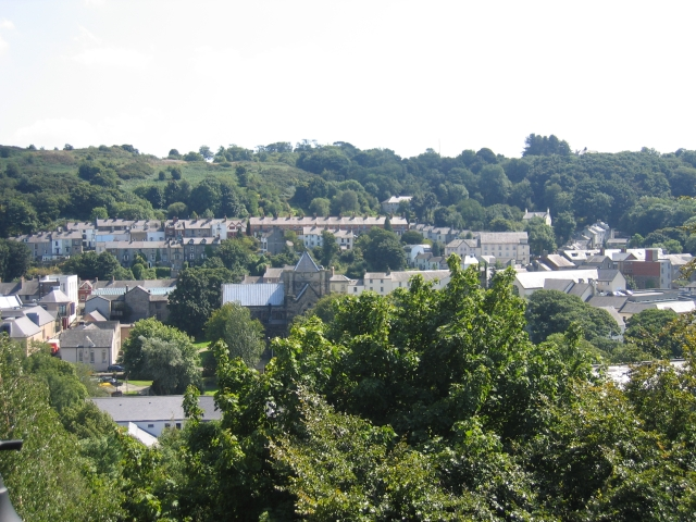 Bangor from UCNW Main Building. The view across Bangor from the terrace. The tower is Bangor Cathedral and on the horizon is Bangor "mountain", both in adjacent (but separate) squares!